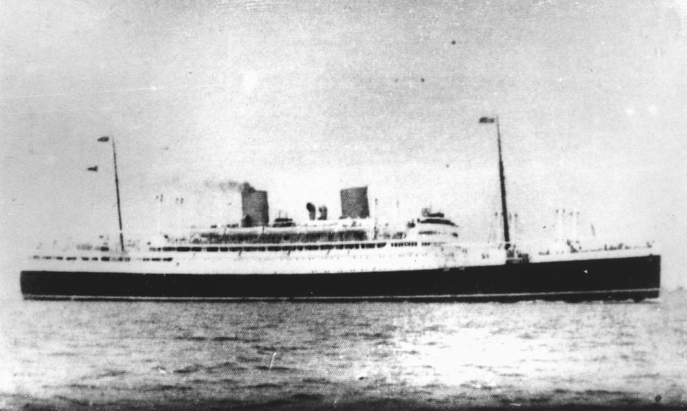 Rangitata (ship)